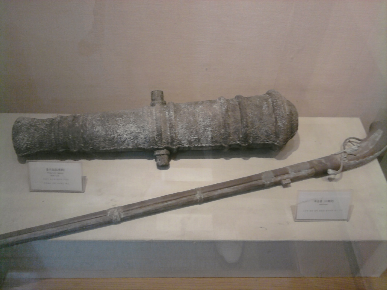 Matchlock and culverin displayed in Unhyeon Palace